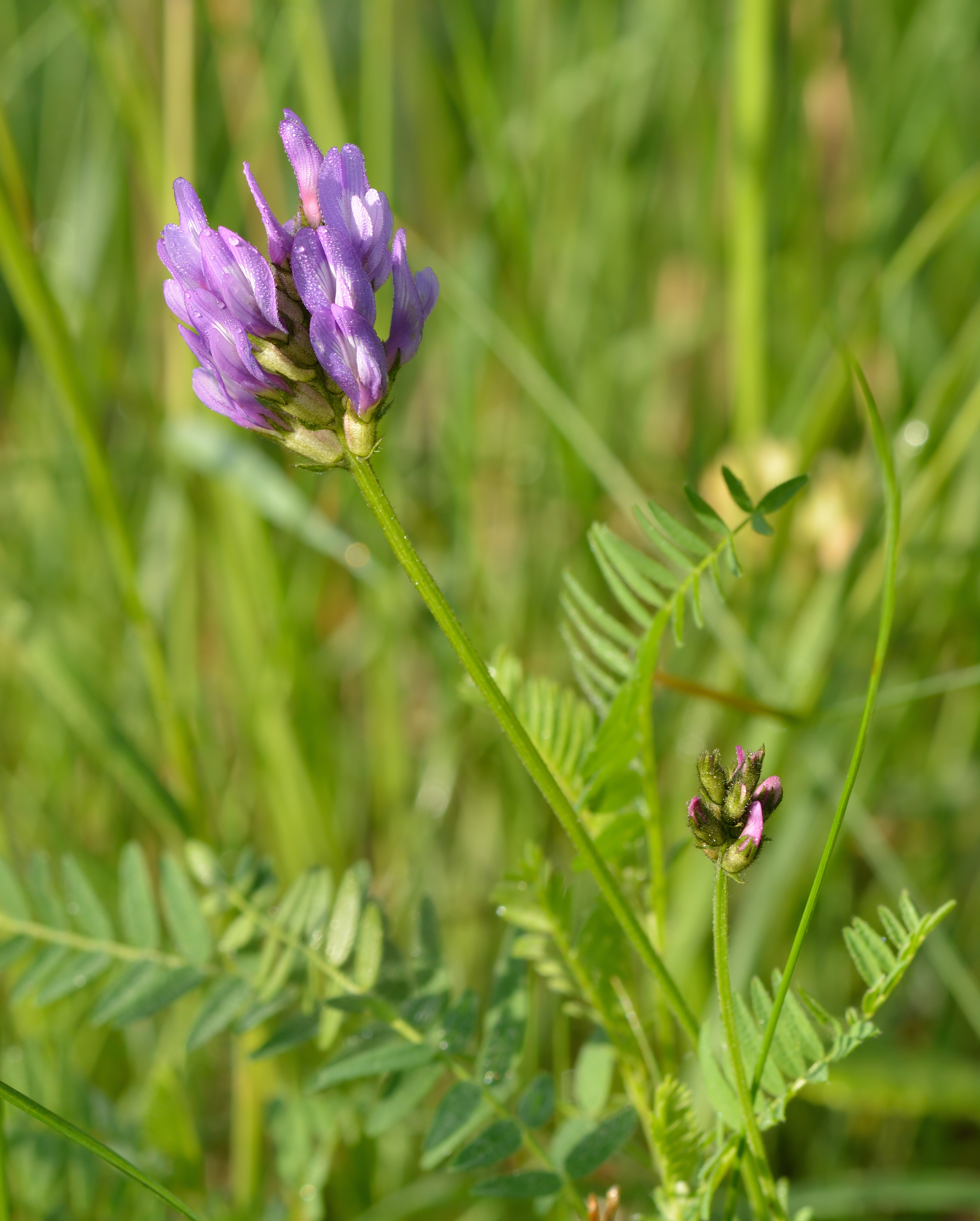 Purple Milk-vetch (Astragalus danicus). Natural habitat (alvar) in Käesalu, Northwestern Estonia.